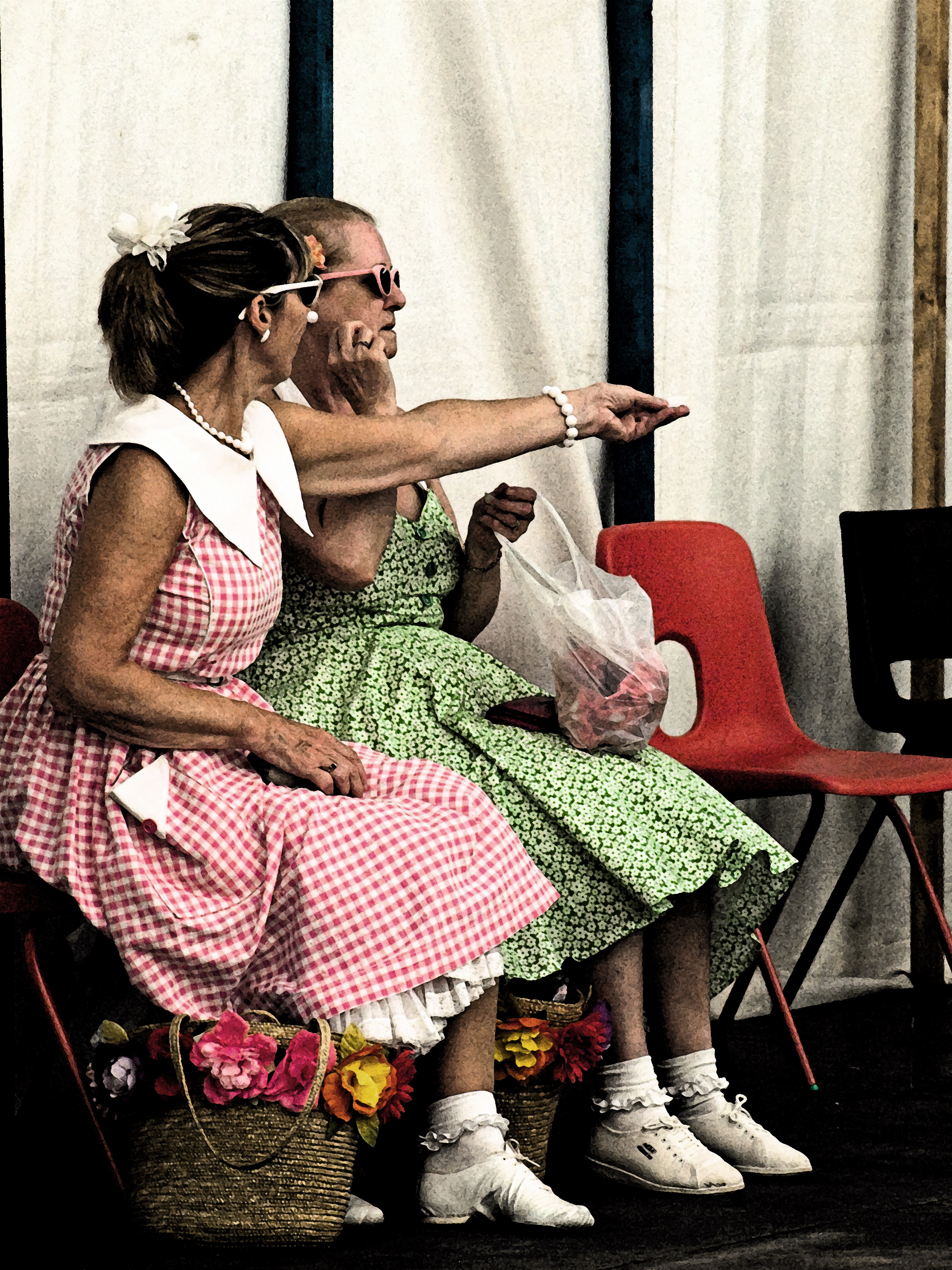 Two women at a 1950s nostalgia weekend in the Crich Tramway Village, Derbyshire, England.